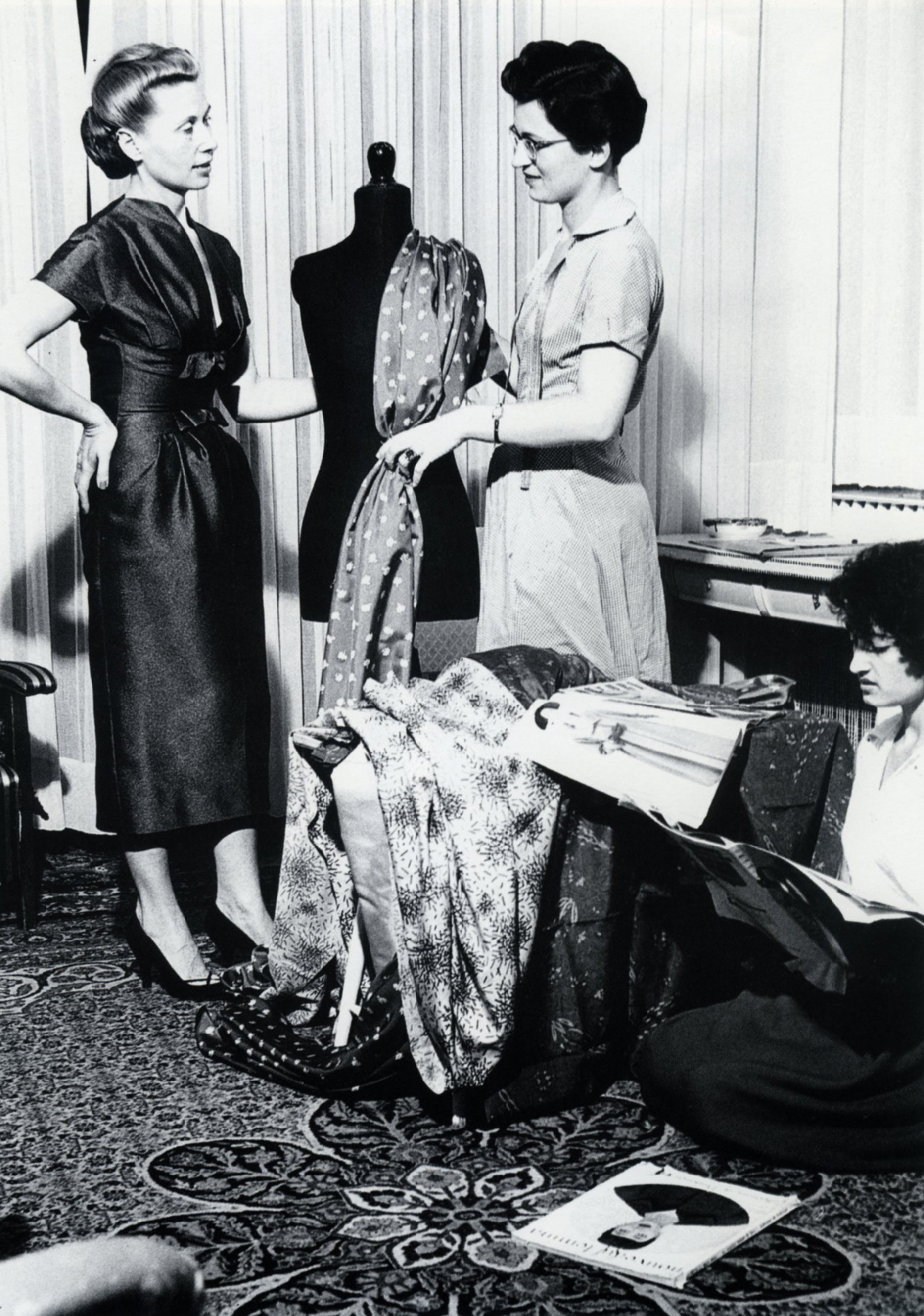 Lola Beer in her Studio on Yarkon Street in Tel Aviv-Yaffo